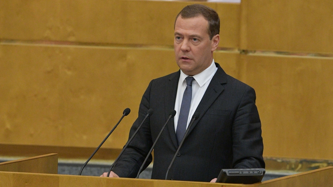 Dmitry Medvedev speak before Russia's State Duma deputies during a meeting where he was approved as prime minister for second term